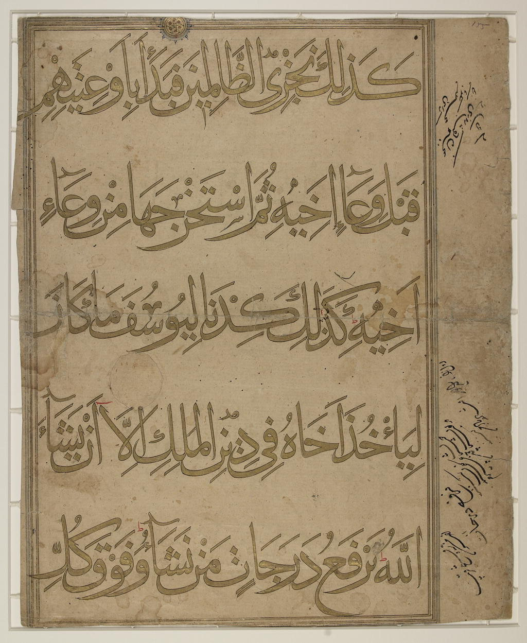 Verses 75-76 of the 12th chapter of the Qur'an entitled Yusuf (Joseph). The text is written in muhaqqaq script and is fully vocalized. The letters are executed in gold and outlined in black ink. Only one slightly cropped verse marker appears at the center of the upper part of the folio: it is gold disk decorated with red and blue designs on its perimeter. In the left margin appear diagonal inscriptions in Persian, which provide a posteriori commentary on the Qur'anic text.